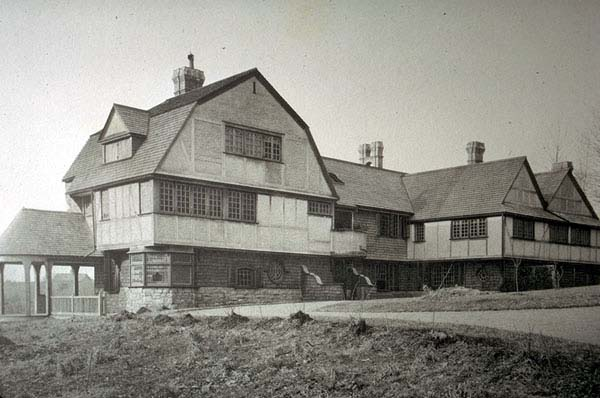 "Farwood" (Richard L. Ashhurst house), Overbrook, Pennsylvania (1884-85, demolished), Wilson Eyre, architect.